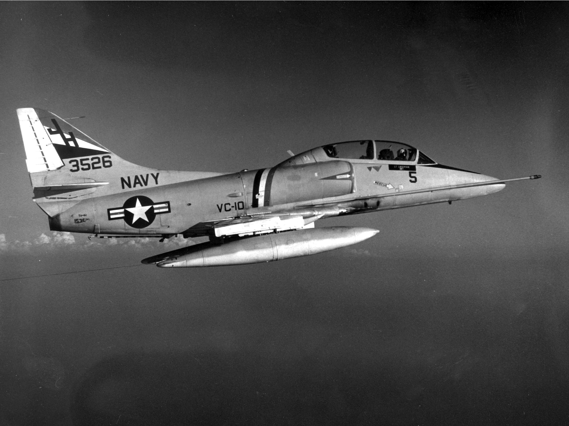 A U.S. Navy Douglas TA-4J Skyhawk (BuNo 153526) of Fleet Composite Squadron 10 (VC-10) in flight near Guantanamo, Cuba. This aircraft was one of the last U.S. Navy Skyhawks to be retired on 16 September 2003.